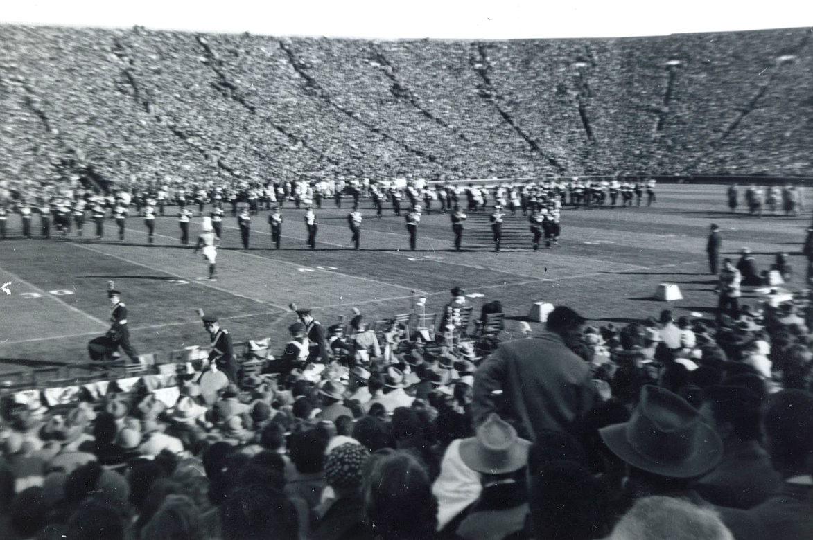 University of Michigan Band marching in Michigan Stadium, Ann Arbor, Michigan. Halftime show in 1949. Photo by John J Namenye.